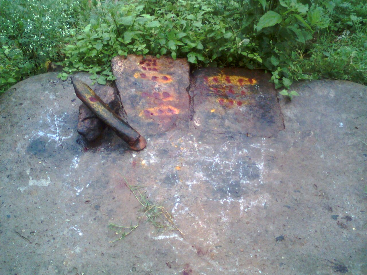 Village Outskirts Diety reliefs (offshoot practice of Buddhism) at Rajula Tallavalasa in Visakhapatnam district